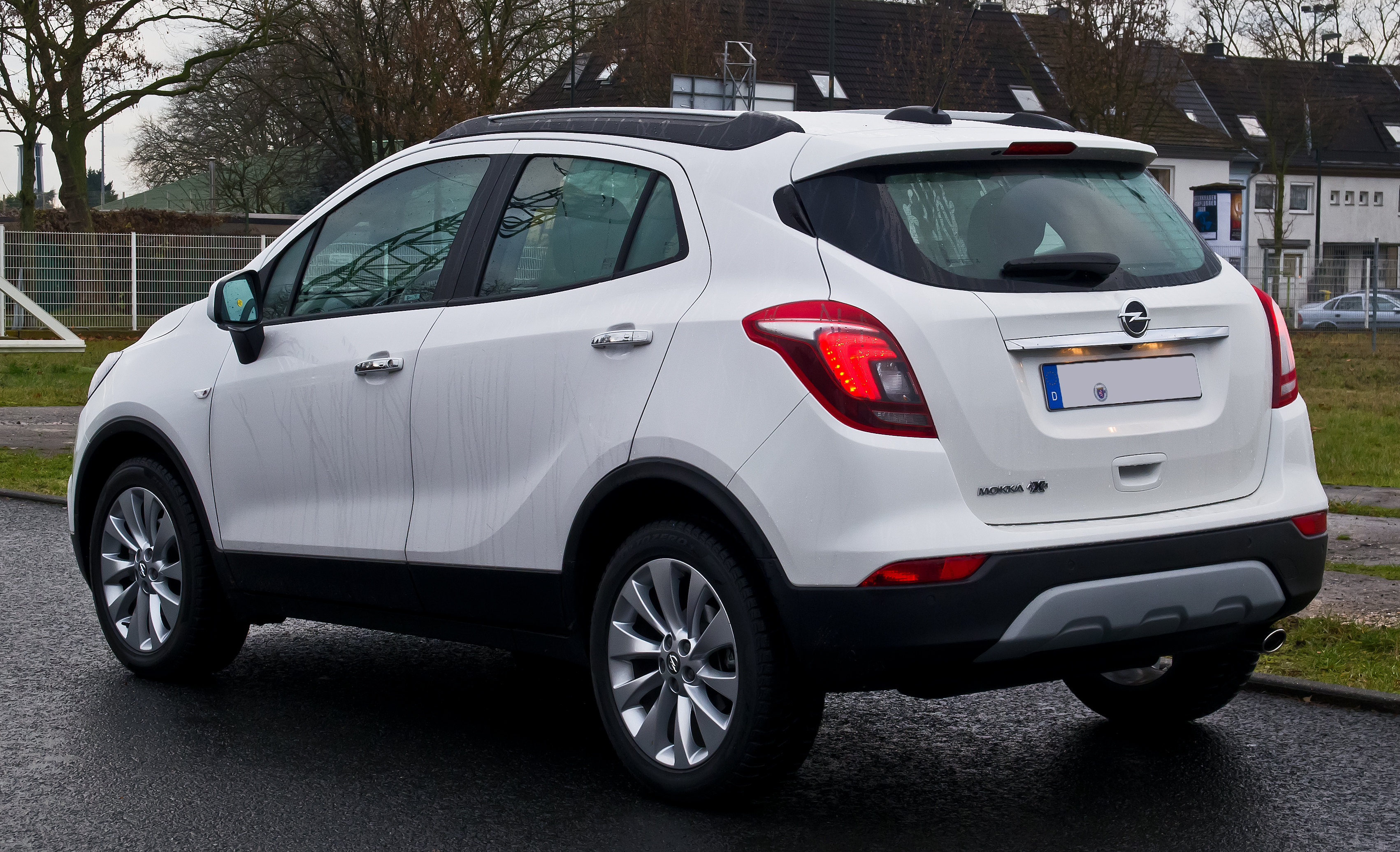 Opel Mokka X 1.6 CDTI ecoFLEX 4x4 Edition (Facelift)